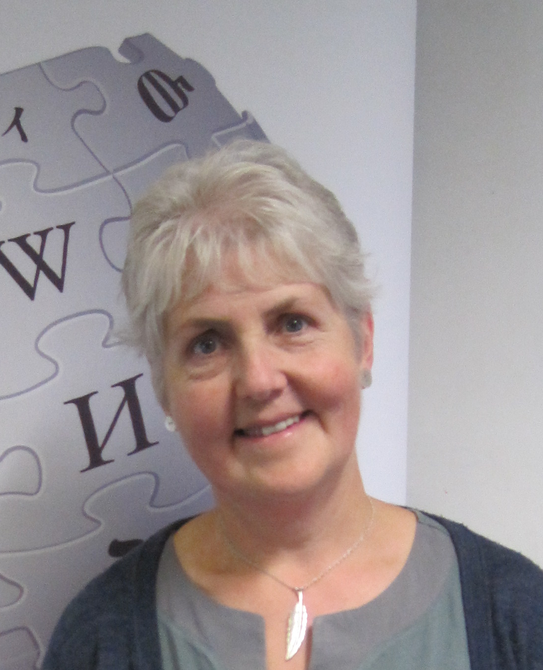 Angharad Tomos, author of books in Welsh, Cymdeithas yr Iaith campaigner